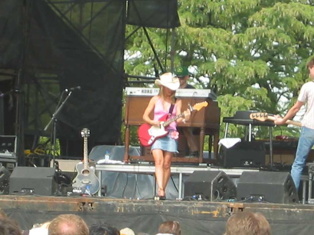 Liz Phair at ACL Fest 2003